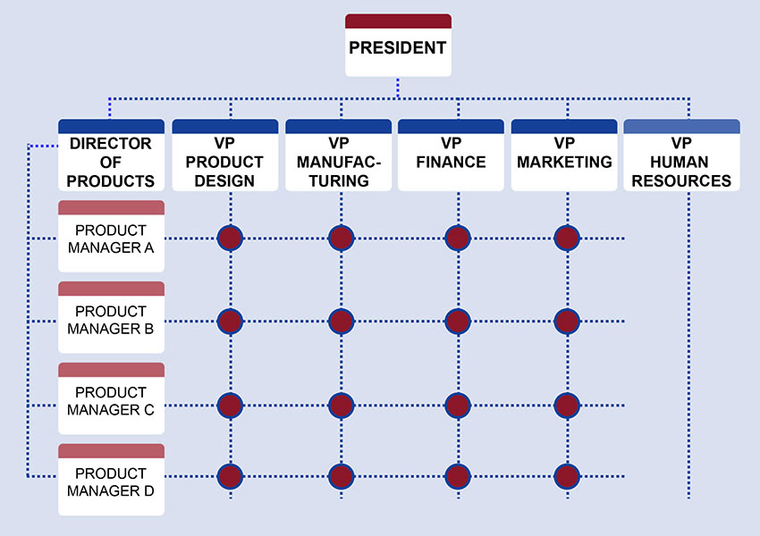 Matrix structure for various product lines.